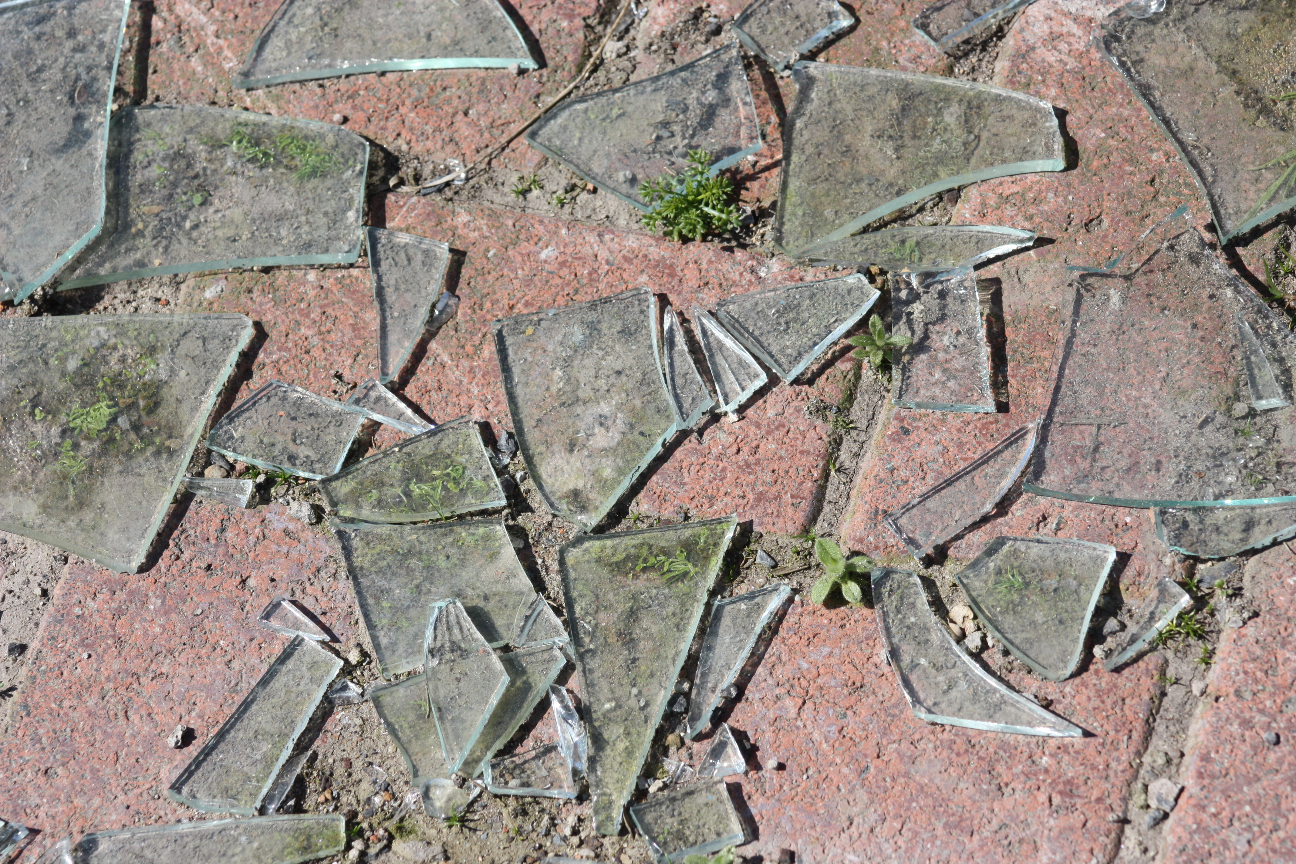 Broken glass, off Queen's Road, Titanic Quarter, Belfast, Northern Ireland, April 2010